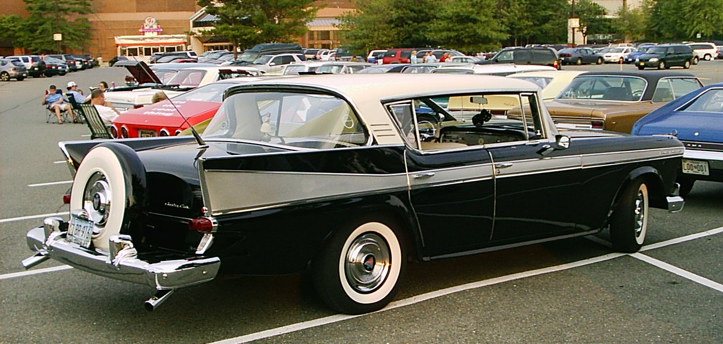 American Motors Corporation (AMC) vehicle - 1958 Ambassador by Rambler - 4-door hardtop (no center pillar) sedan. Picture taken during 2006 AMCRC show in Gaithersburg, Maryland. Cruise to Mall.